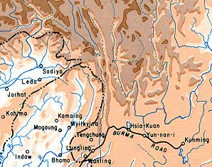 Allied Third Burma Campaign, Apri l- May 1945